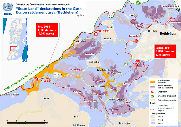 Map showing Gush Etzion area of West Bank and settlements therein.